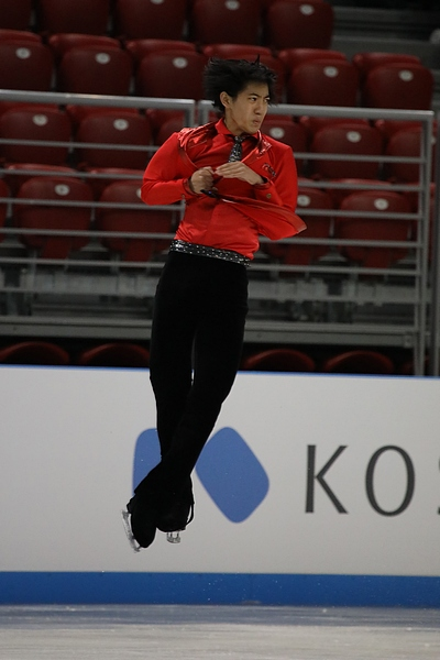 Photos – Junior World Championships 2018 – Men (Sena MIYAKE JPN – 18th Place)